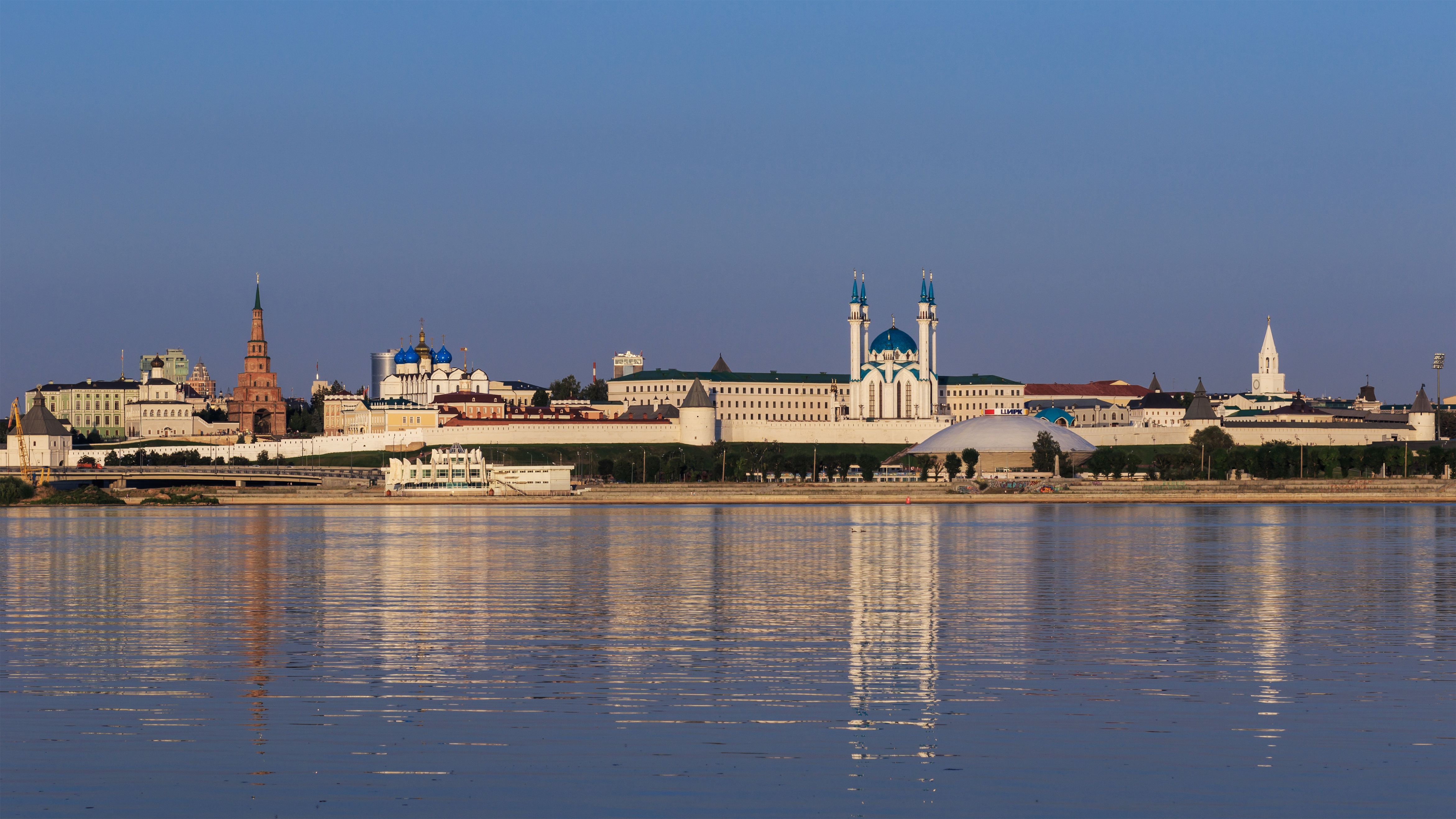 Exterior view of the Kremlin in Kazan, Russia